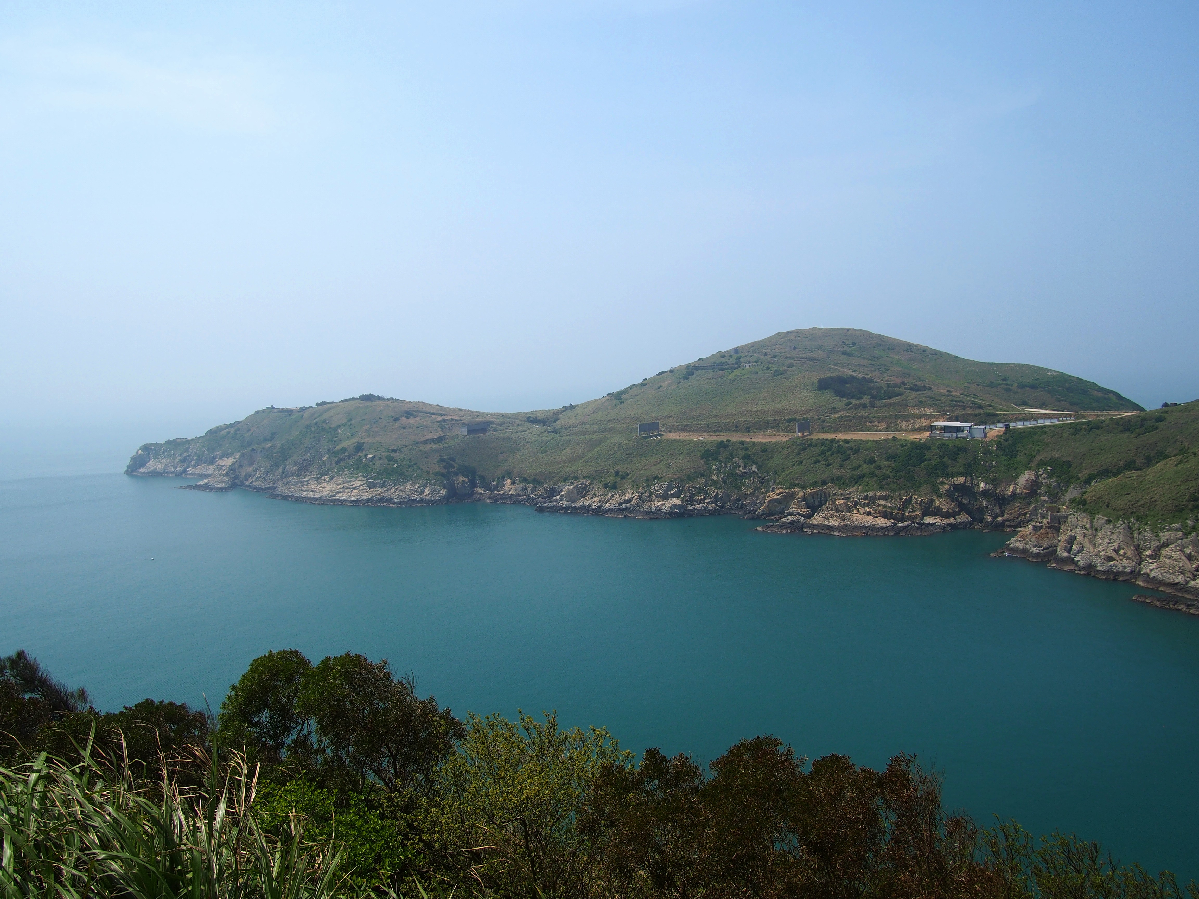 Crouching Crocodile - 2016.04